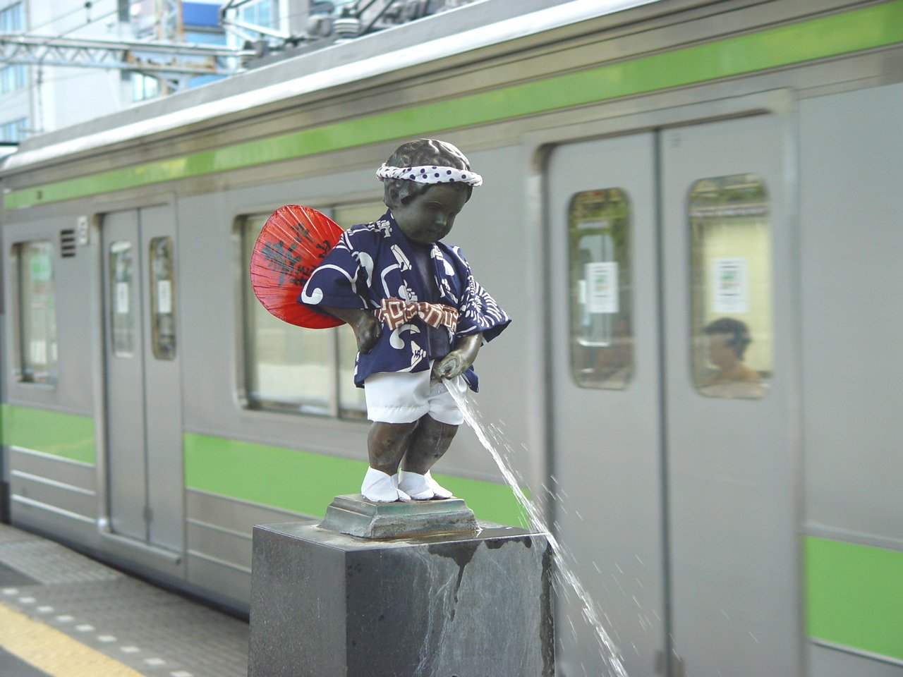 Manneken Pis statue on the platform of JR Hamamatsucho station in Tokyo